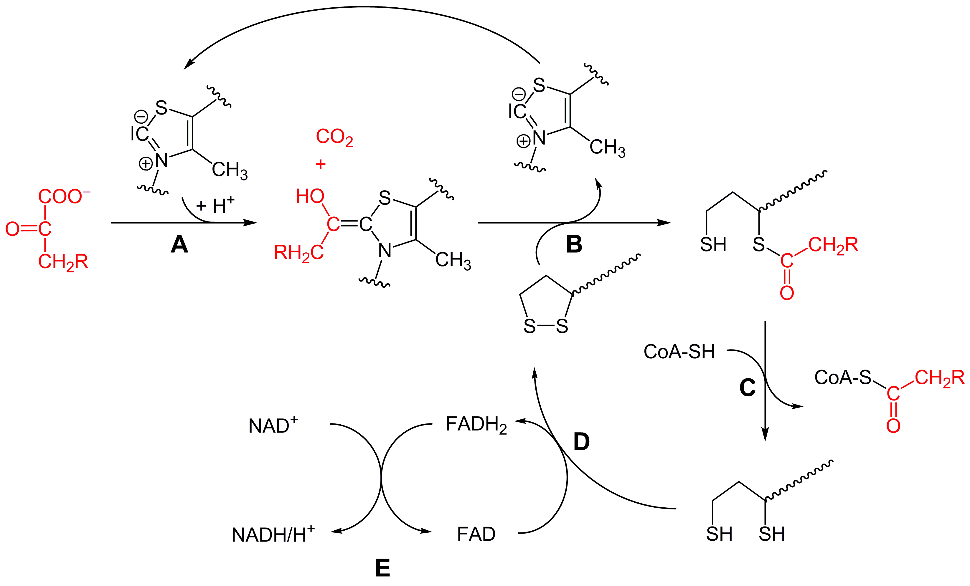 Schema of the ox. decarboxylation. For pyruvate (R=H) that is catalyized by the pyruvate dehydrogenase complex